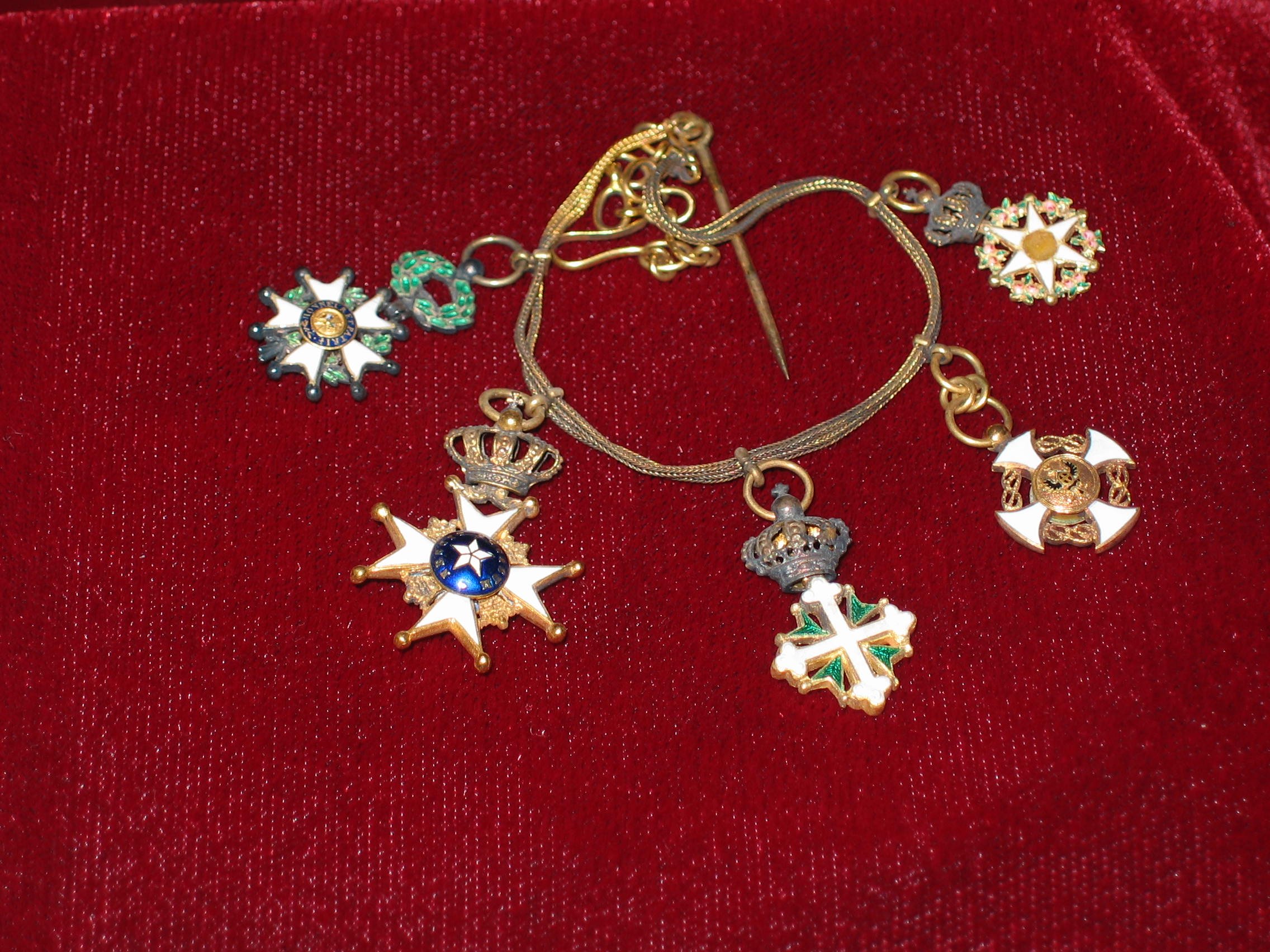 Miniatures of Alfred Nobels orders. Nobel Museum in Karlskoga, Sweden.